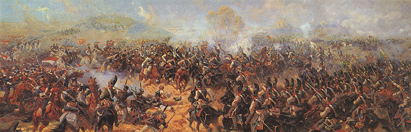 Franz Roubaud. Raevsky Battery during the Battle of Borodino (1812).